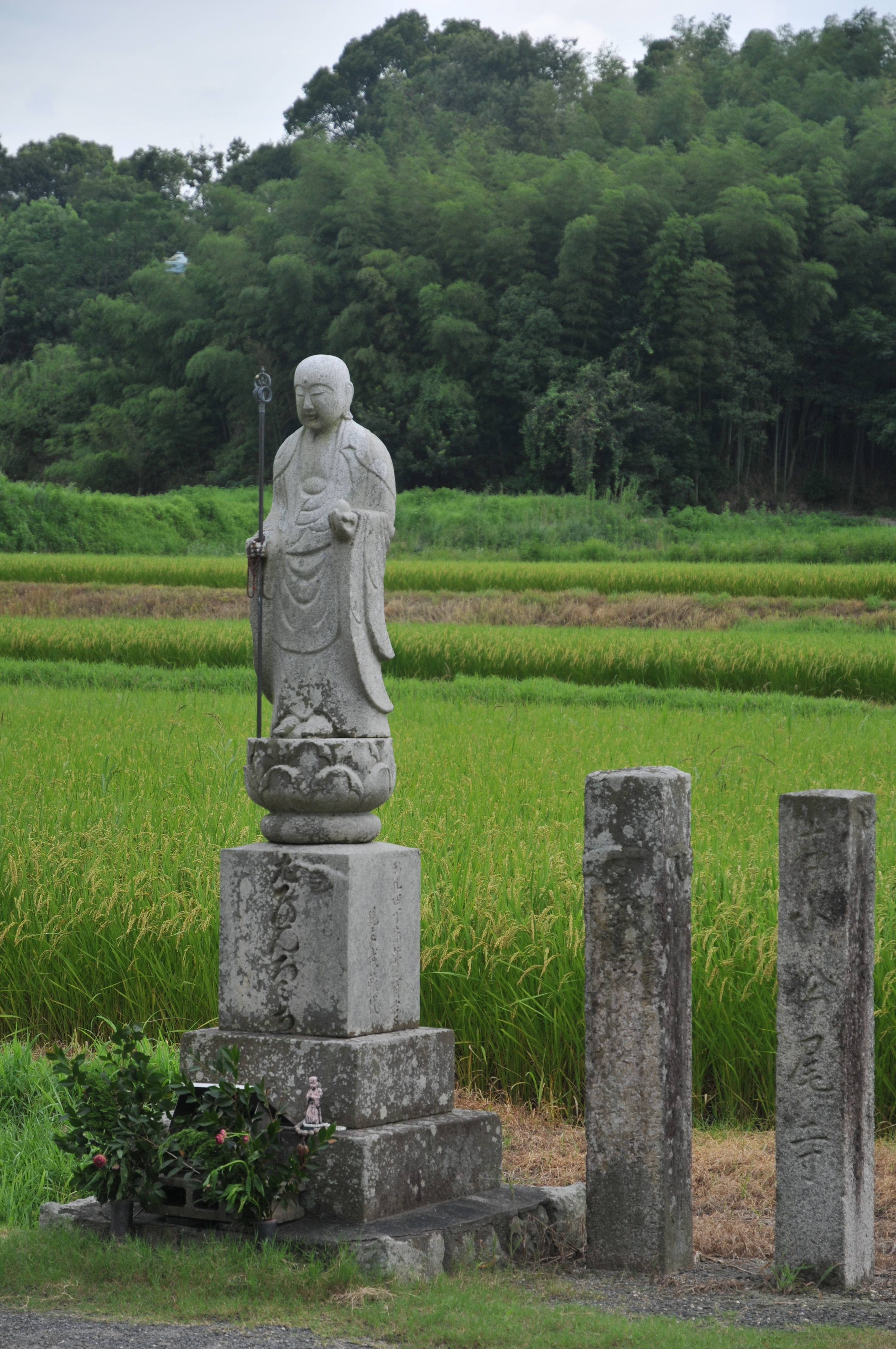 Jizō statue and guidepost in front of Daikō-ji